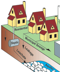 The pathways between homes and septic or municipal sewage facilities.